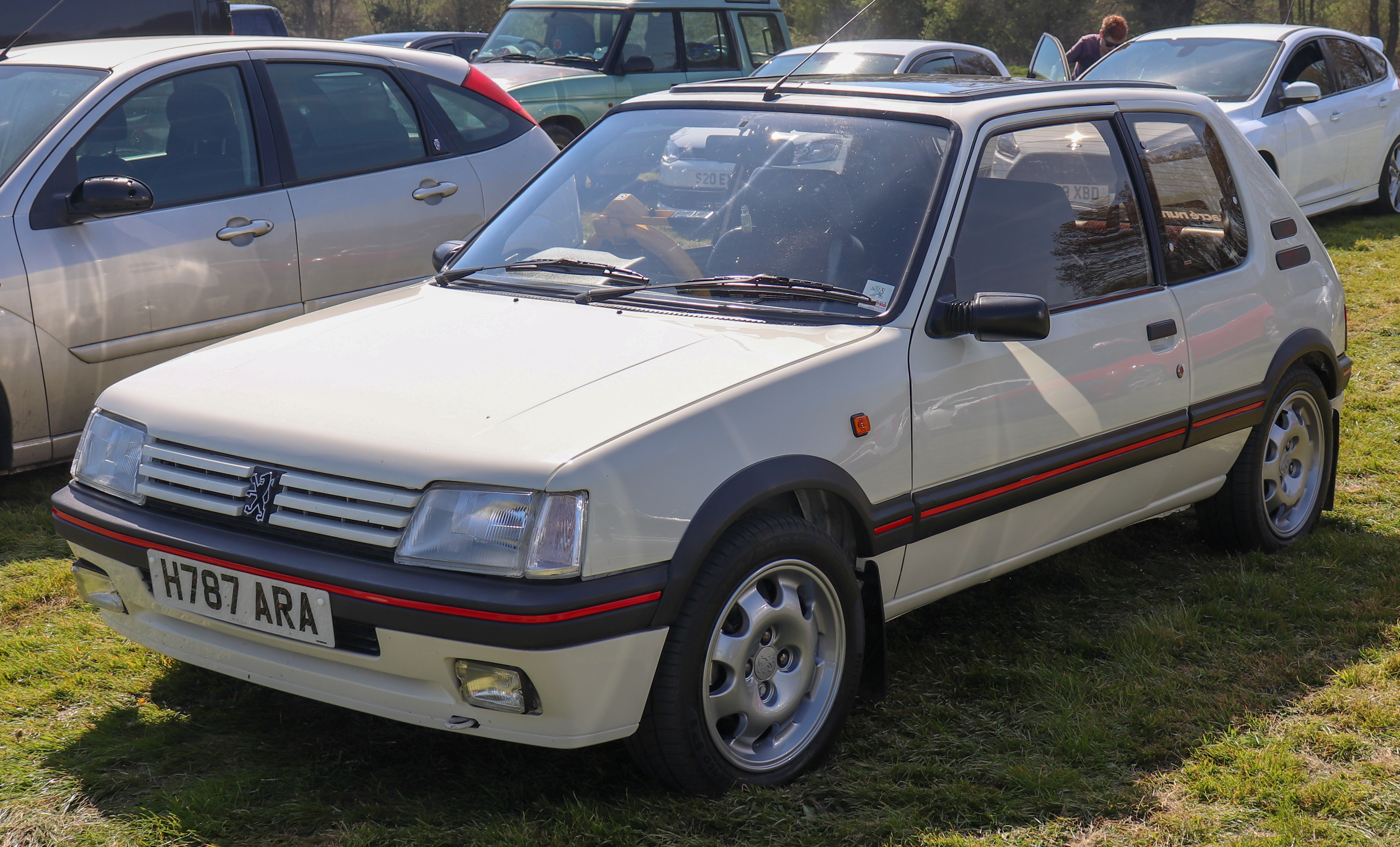 1991 Peugeot 205 GTi 1.9 Front Taken at NAEC Stoneleigh, Stoneleigh, Coventry